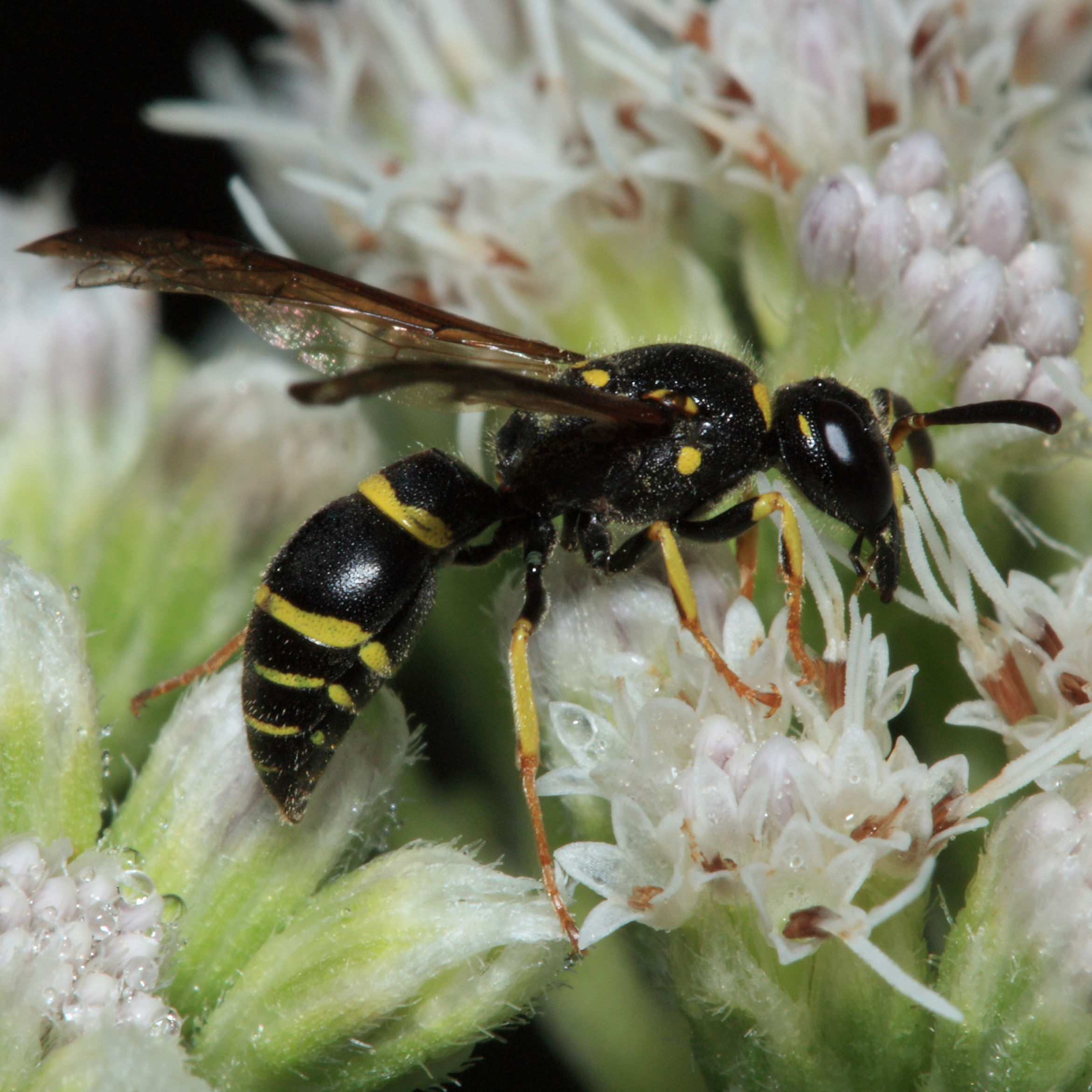 Potter Wasp female, Symmorphus sp.